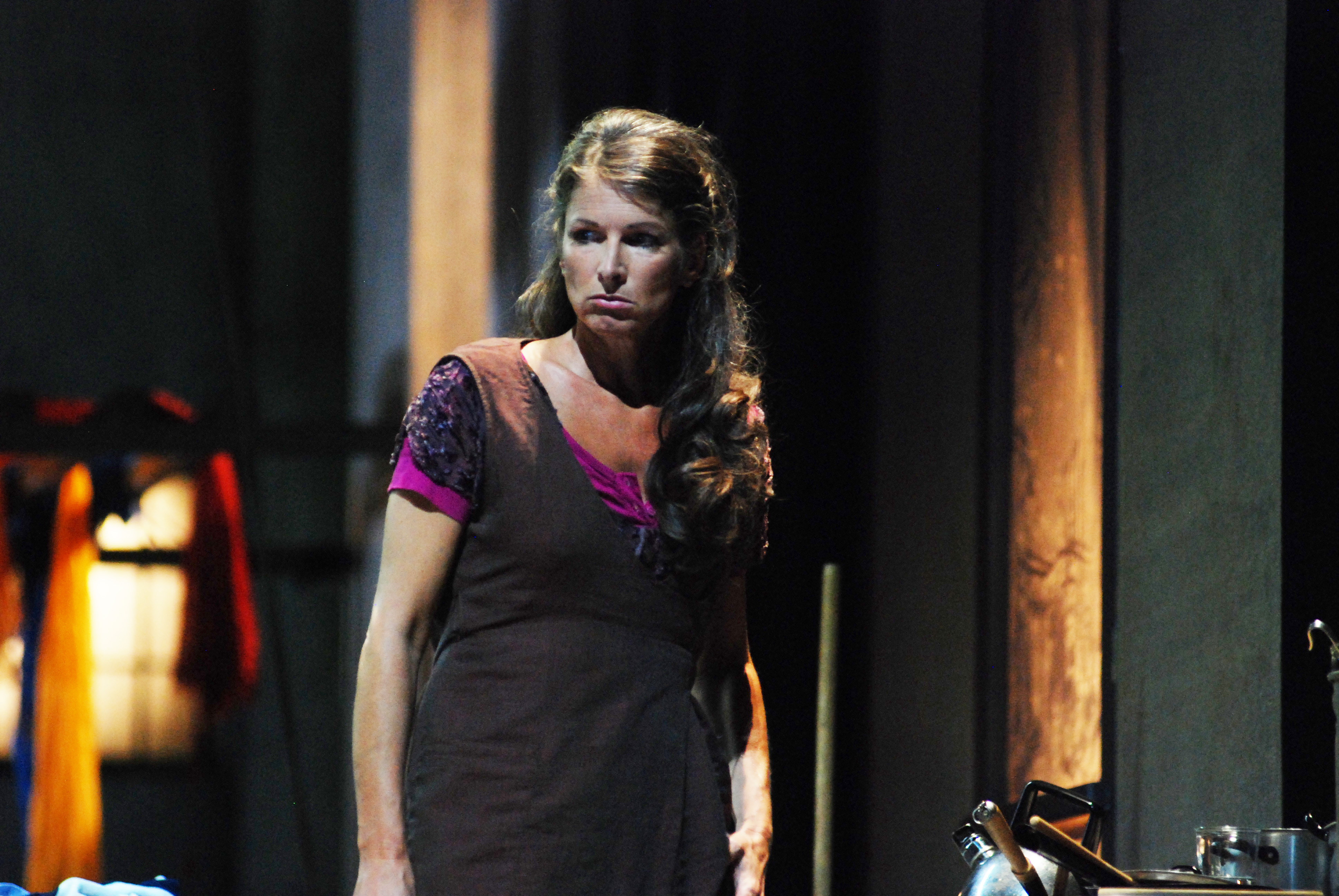 Nicola Beller Carbone as "Färberin" in Richard Strauss' Die Frau ohne Schatten staged at Hessisches Staatstheater Wiesbaden, 2014